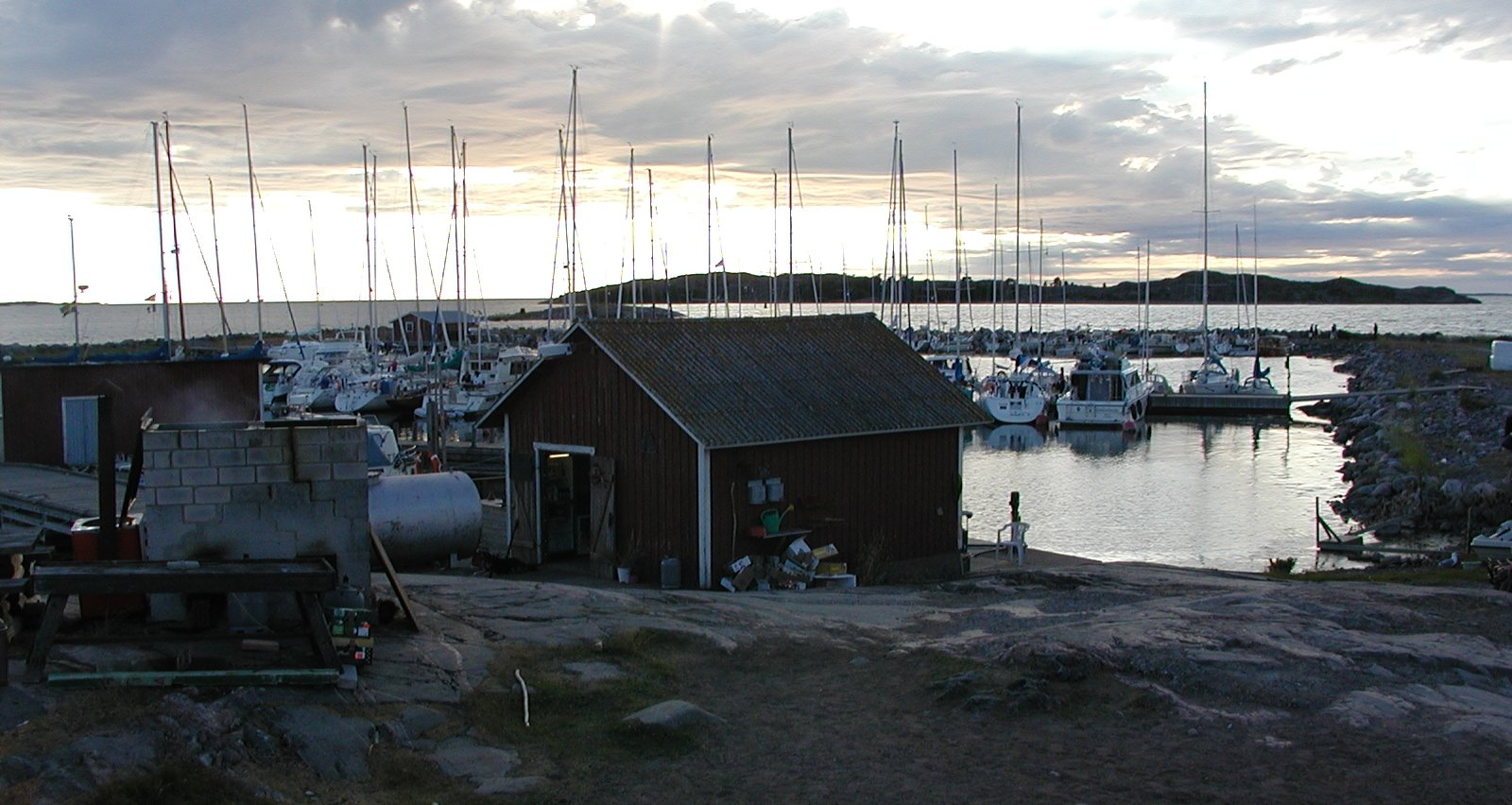 Jurmo Guest Harbour in Korpo, Finland